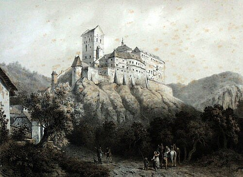 Karlštejn Castle around 1850.